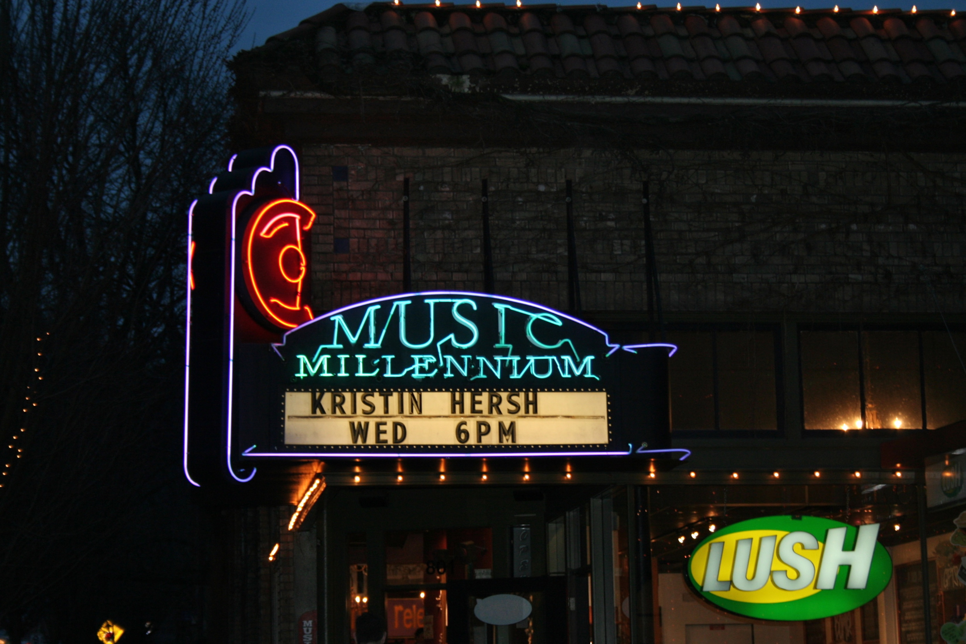 Neon sign and marquee at the former main location of Music Millennium, on NW 23rd Avenue, in Portland, Oregon. Music Millennium closed the store at this location in September 2007, and its store on East Burnside Street became the main location.